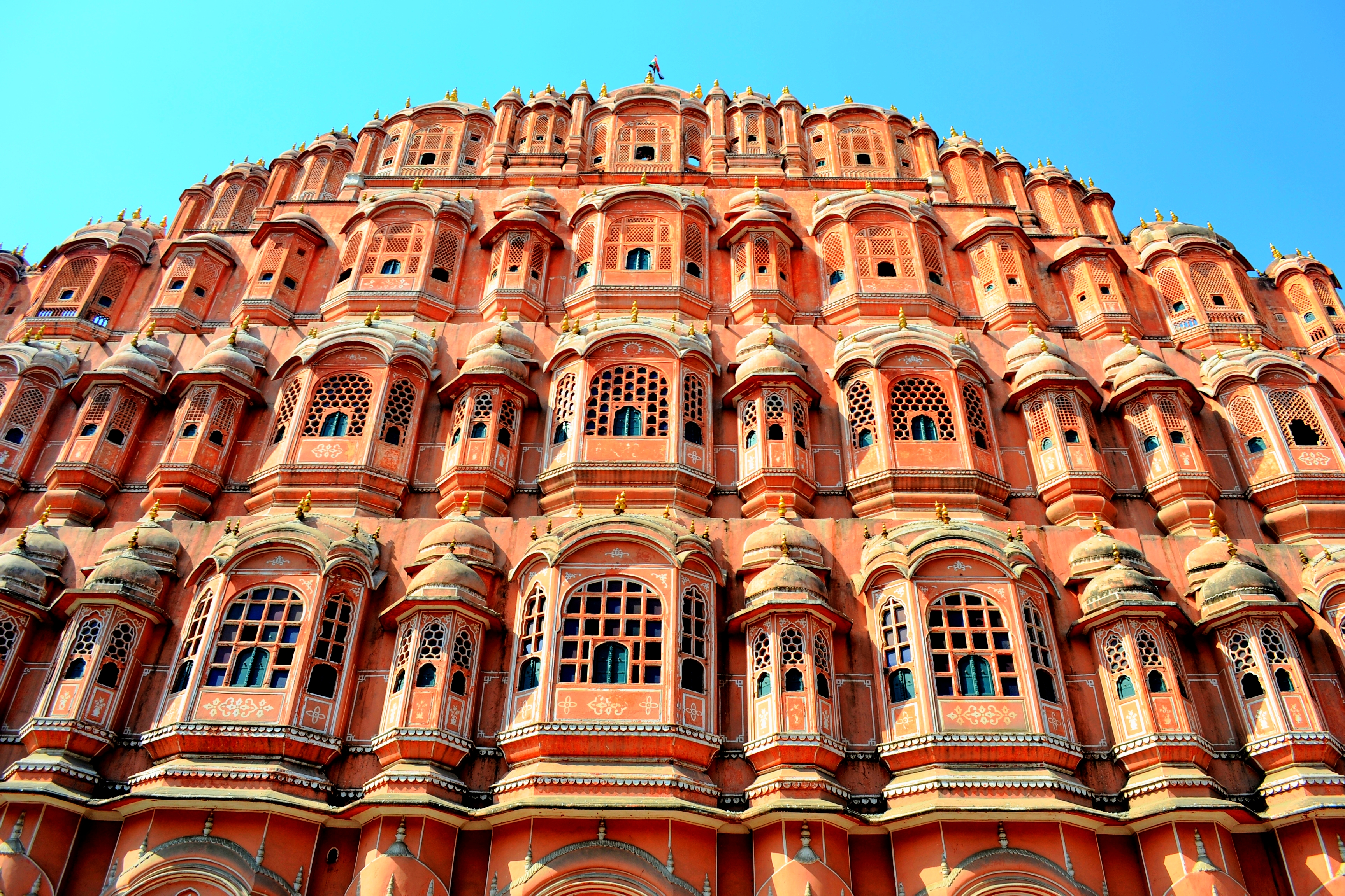 Hawa Mahal